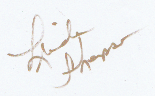 Signed by Linda Thompson at the European Elvis Festival in Bad Nauheim, 2019